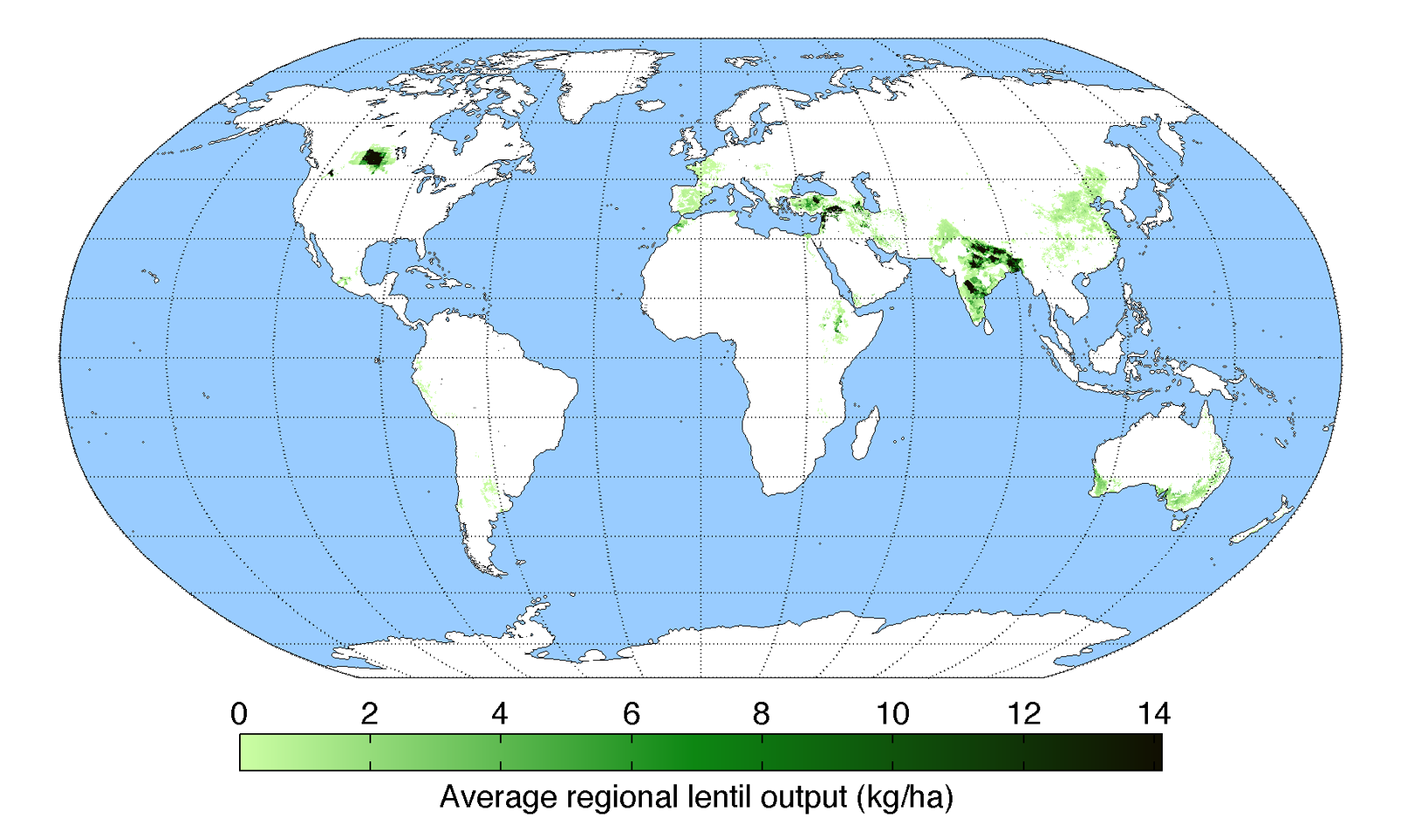 Map of lentil production (average percentage of land used for its production times average yield in each grid cell) across the world compiled by the University of Minnesota Institute on the Environment with data from: Monfreda, C., N. Ramankutty, and J.A. Foley. 2008. Farming the planet: 2. Geographic distribution of crop areas, yields, physiological types, and net primary production in the year 2000. Global Biogeochemical Cycles 22: GB1022